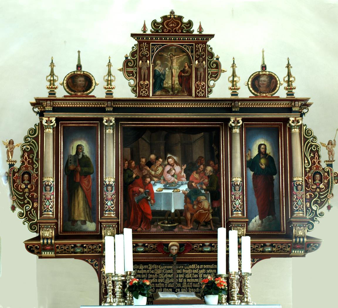 Boel, Schleswig-Holstein (Germany), Church St. Ursula, Altar, photo 2011